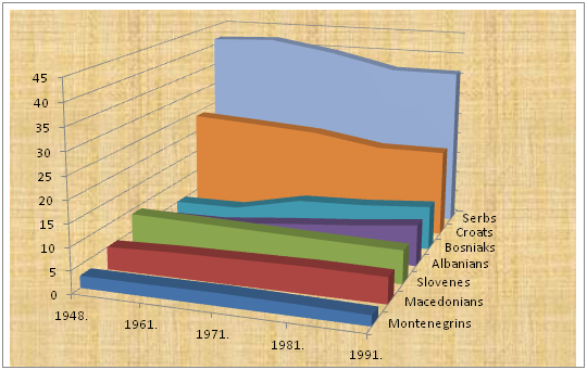 Changes of the composition of nations of Yugoslavia according to the 1948-1991 census (in %)